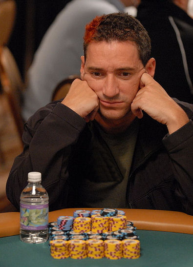 Perry Friedma playing at the 2007 World Series of Poker